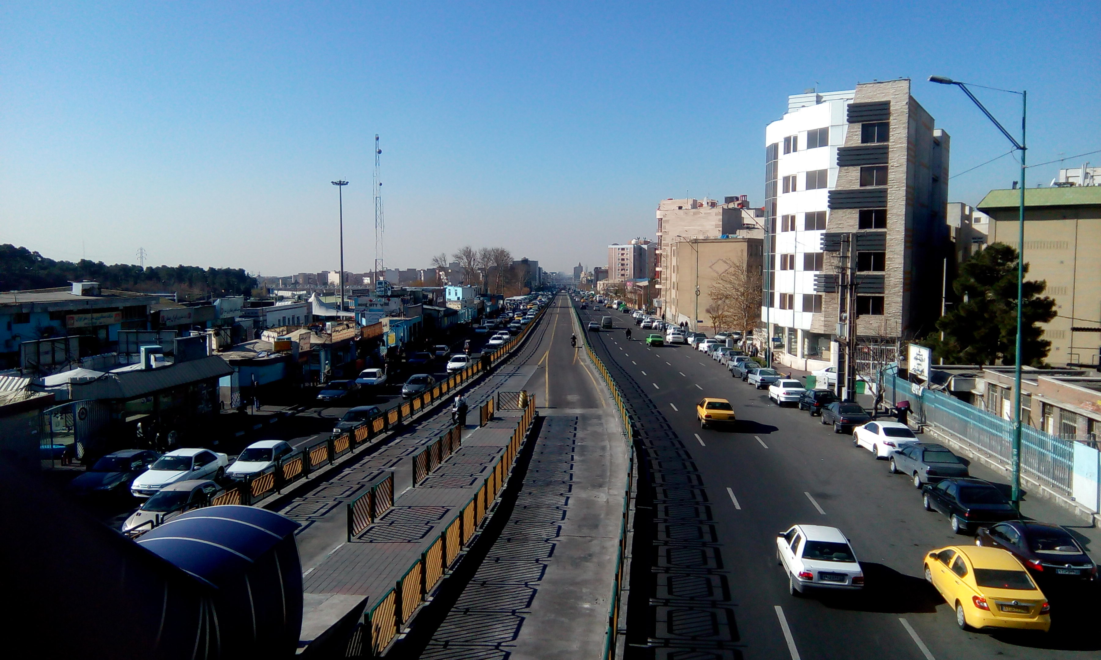 Damavand Street